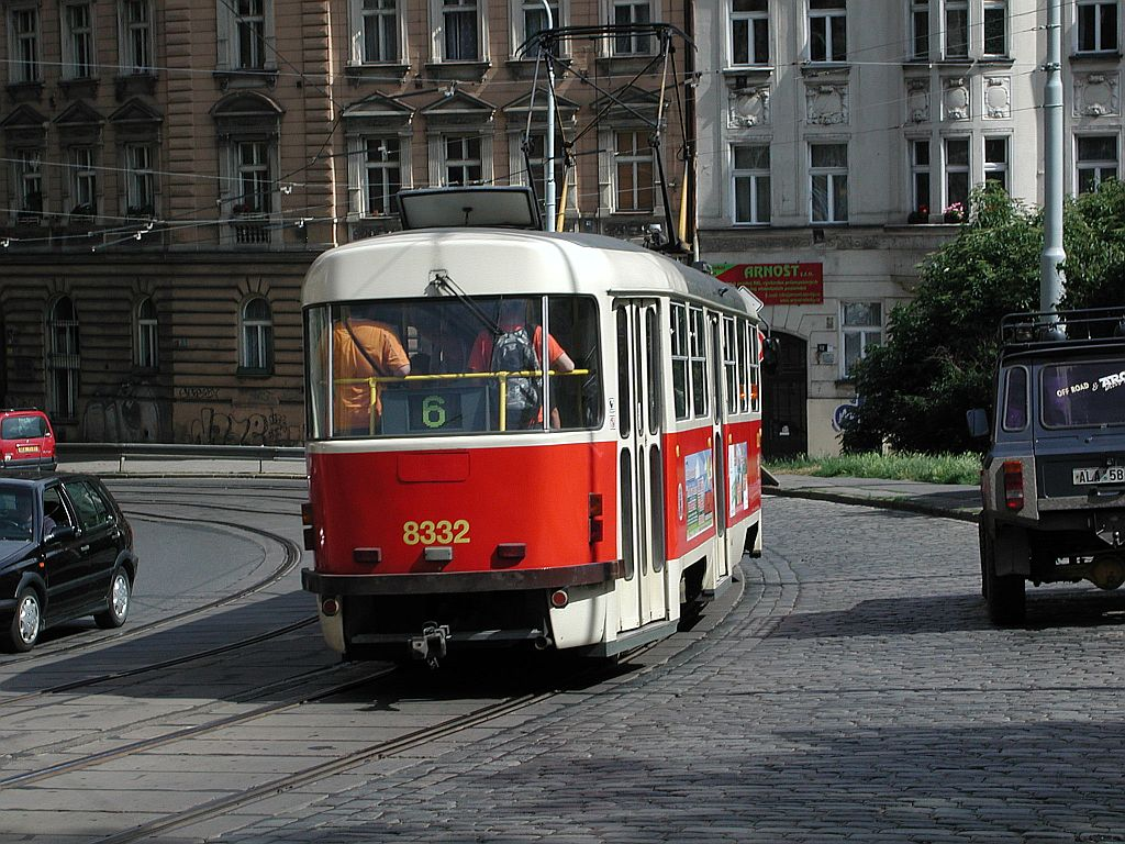 Prague tramcar No. 8332 at Bělehradská street